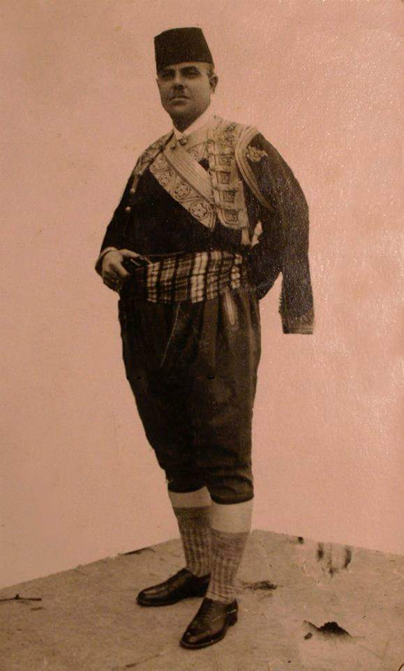 Standing portrait of Cafo Beg Ulqini